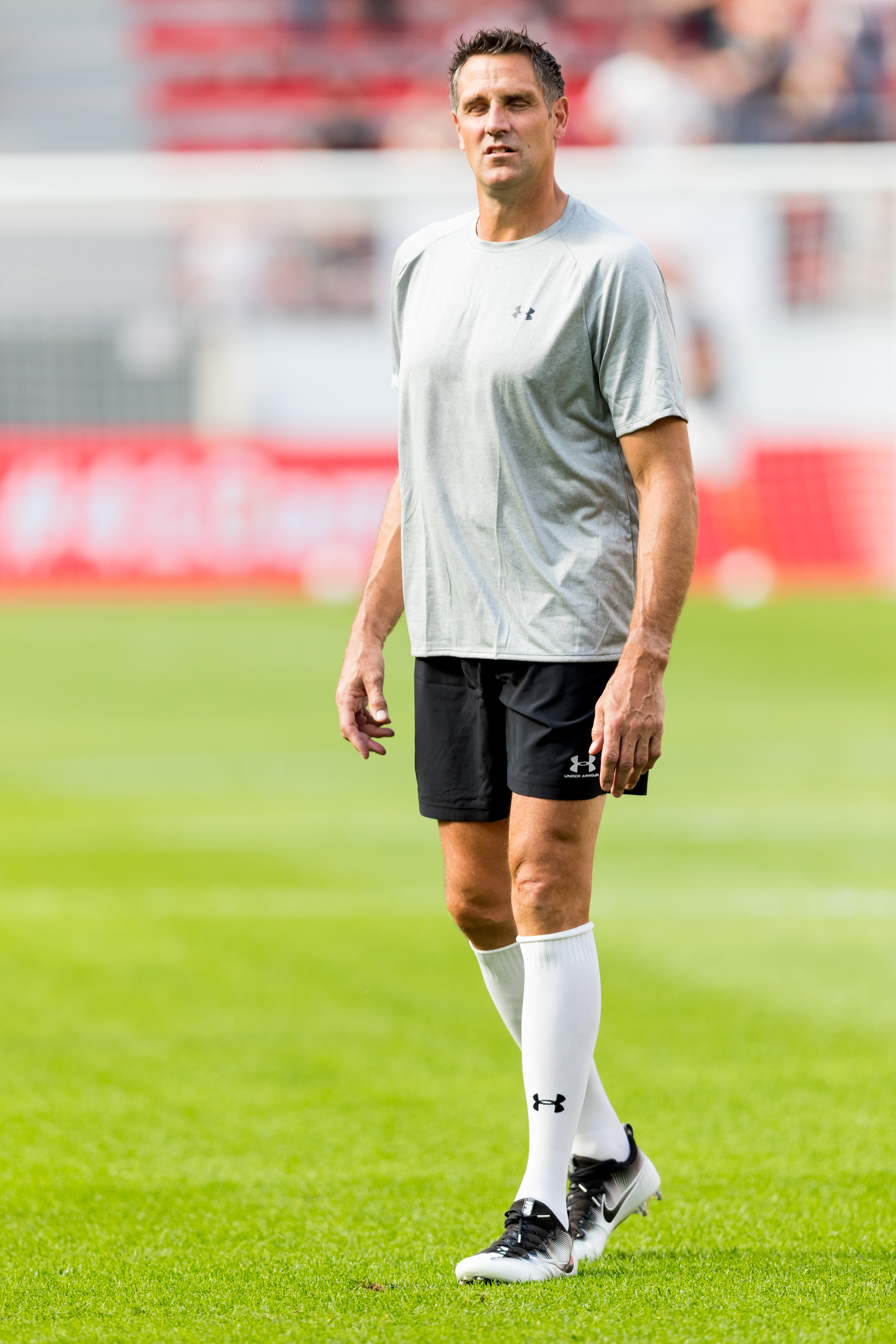 Miscellaneous during Champions for Charity at BayArena, Leverkusen, Nordrhein-Westfalen, Germany on 2019-07-21, Photo: Sven Mandel